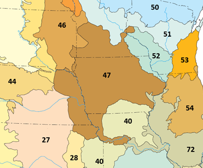 Map showing the Western Corn Belt Plains (47) ecoregion as defined by USEPA, with adjacent Level III ecoregions